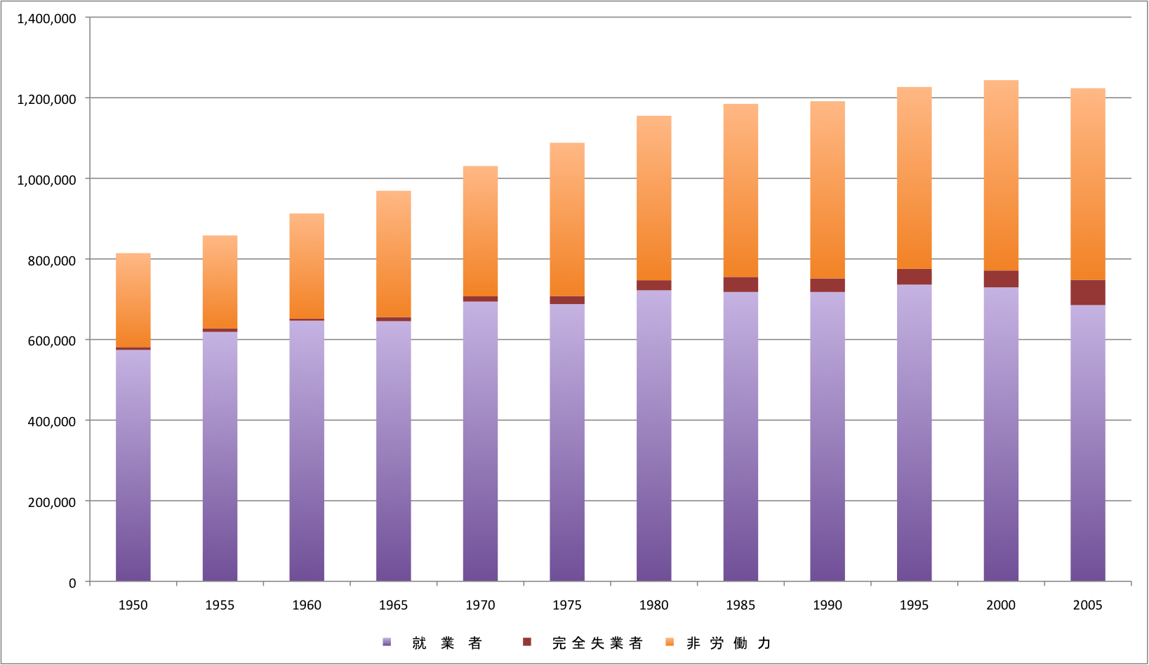 Labor power of Aomori prefecture.png